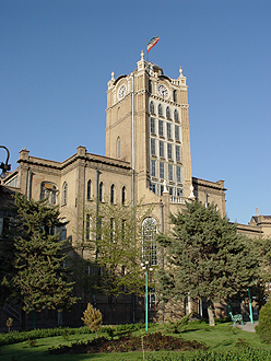 Sa'at Tower also known as "Tabriz Municipality Palace"